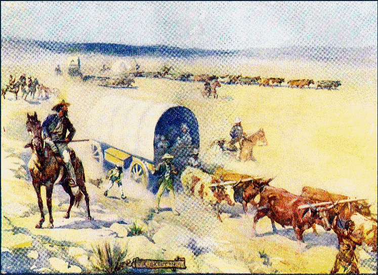 This book provides a vivid and picturesque account of the principal events in the building of the British Empire. It traces the development of the British colonies from the days of discovery and exploration through settlement and establishment of government. Included are stories of the five chief portions of the British Empire: Canada, Australia, New Zealand, South Africa, and India.